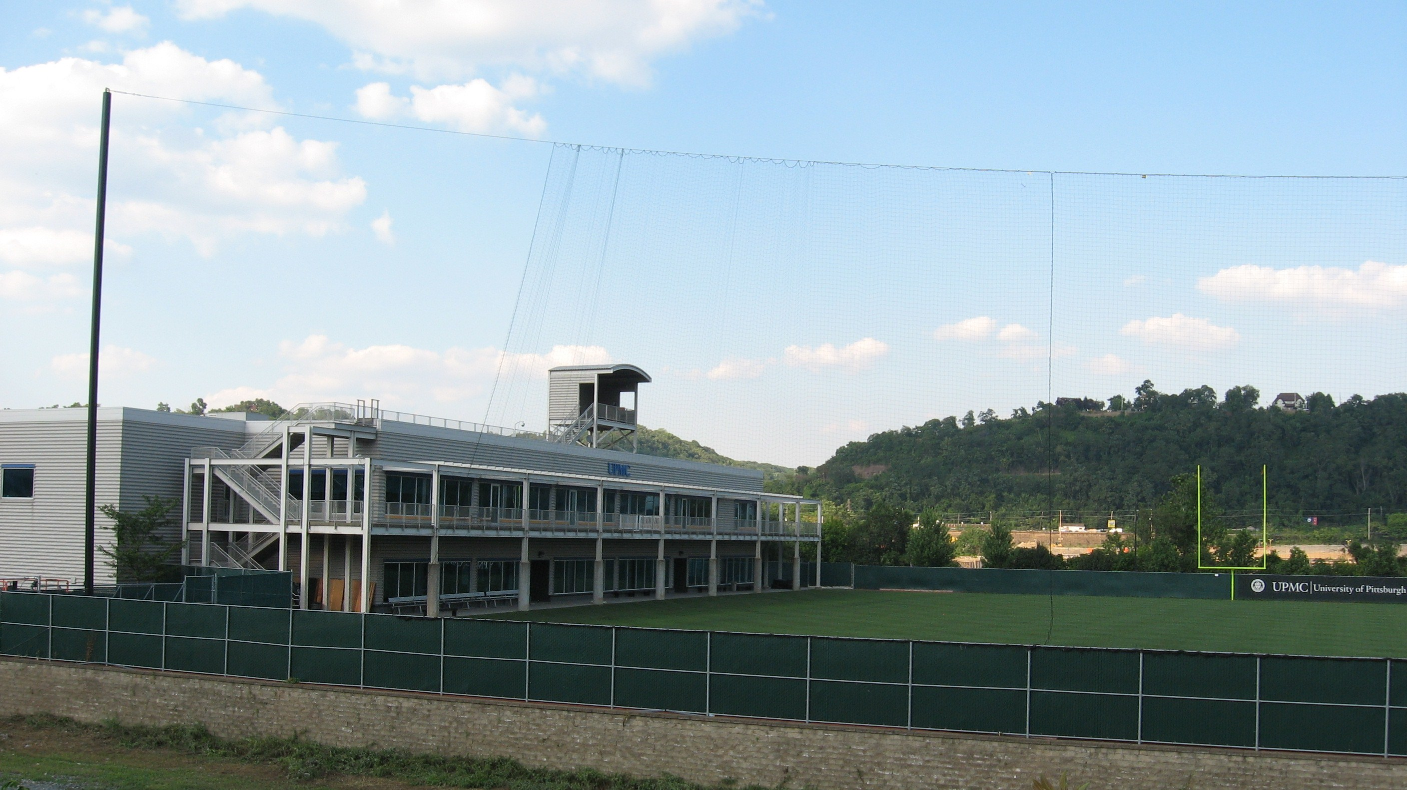 UPMC Sports Performance Complex, practice football field for the Pittsburgh Steelers and Pitt Panthers 40°25′17.6″N 79°57′24.9″W / 40.421556°N 79.956917°W